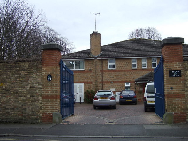 Helen House Founded in 1982 by Sister Frances Dominica following her contact with a terminally ill child called Helen, this was the world's first centre to provide respite and end of life care for children with life-shortening conditions.